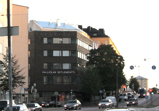 Kalliola adult education